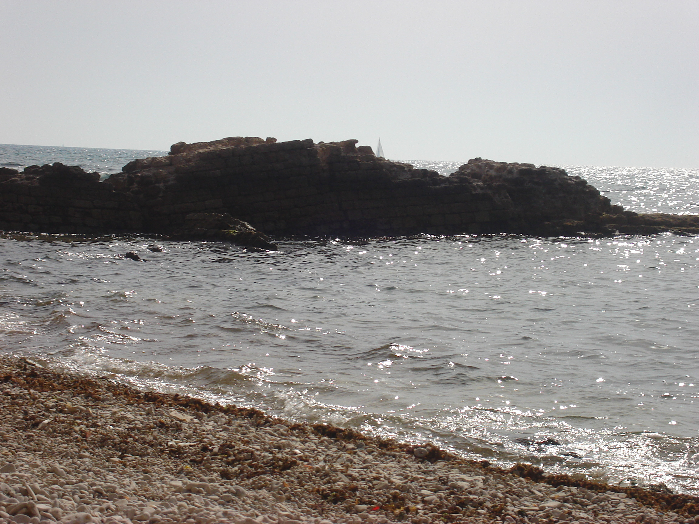 Apolonia beach in Herzliya, Israel. (taken by Max Fainberg).